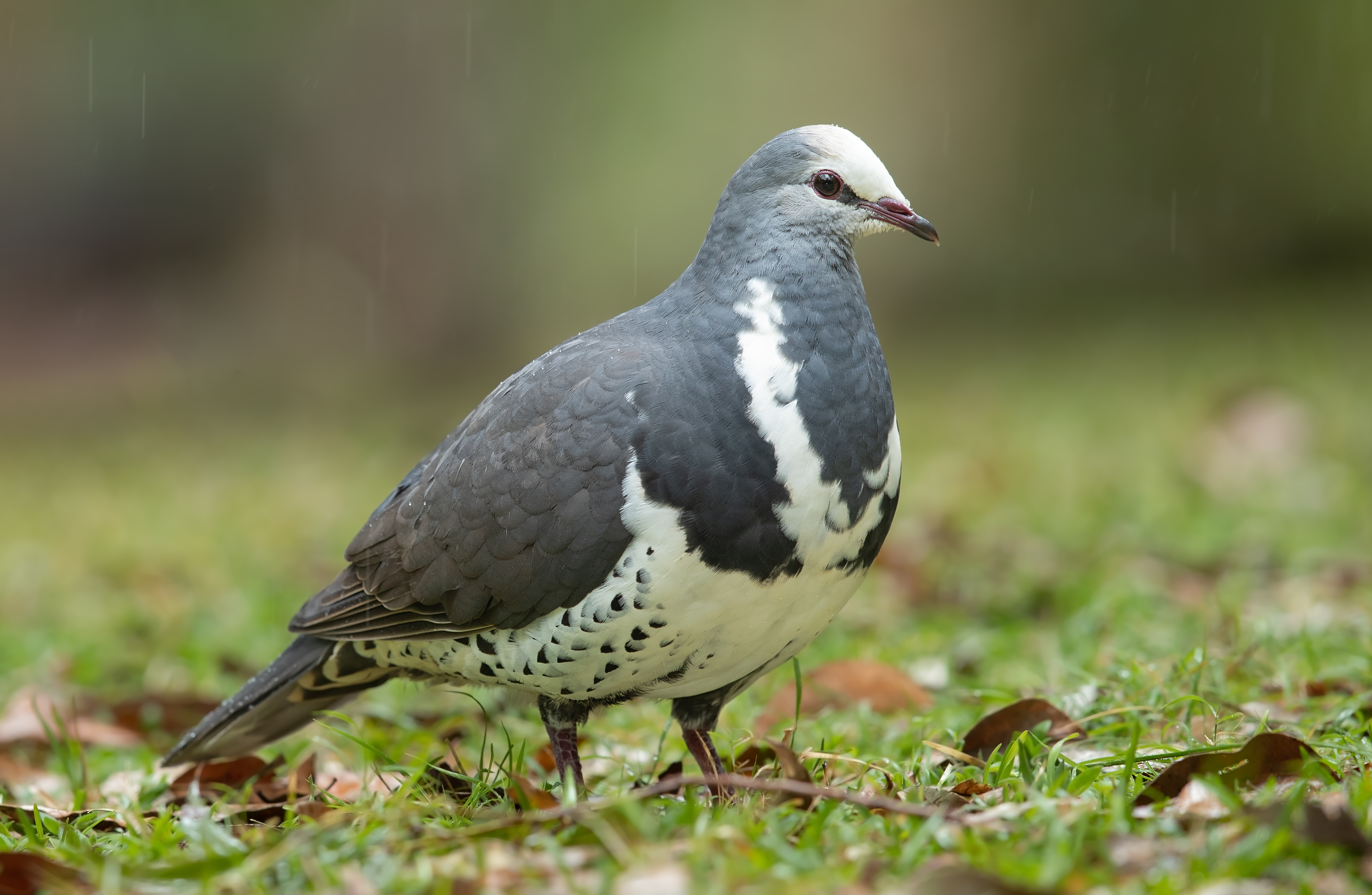 Wonga Pigeon (Leucosarcia melanoleuca), Brunkerville, New South Wales, Australia